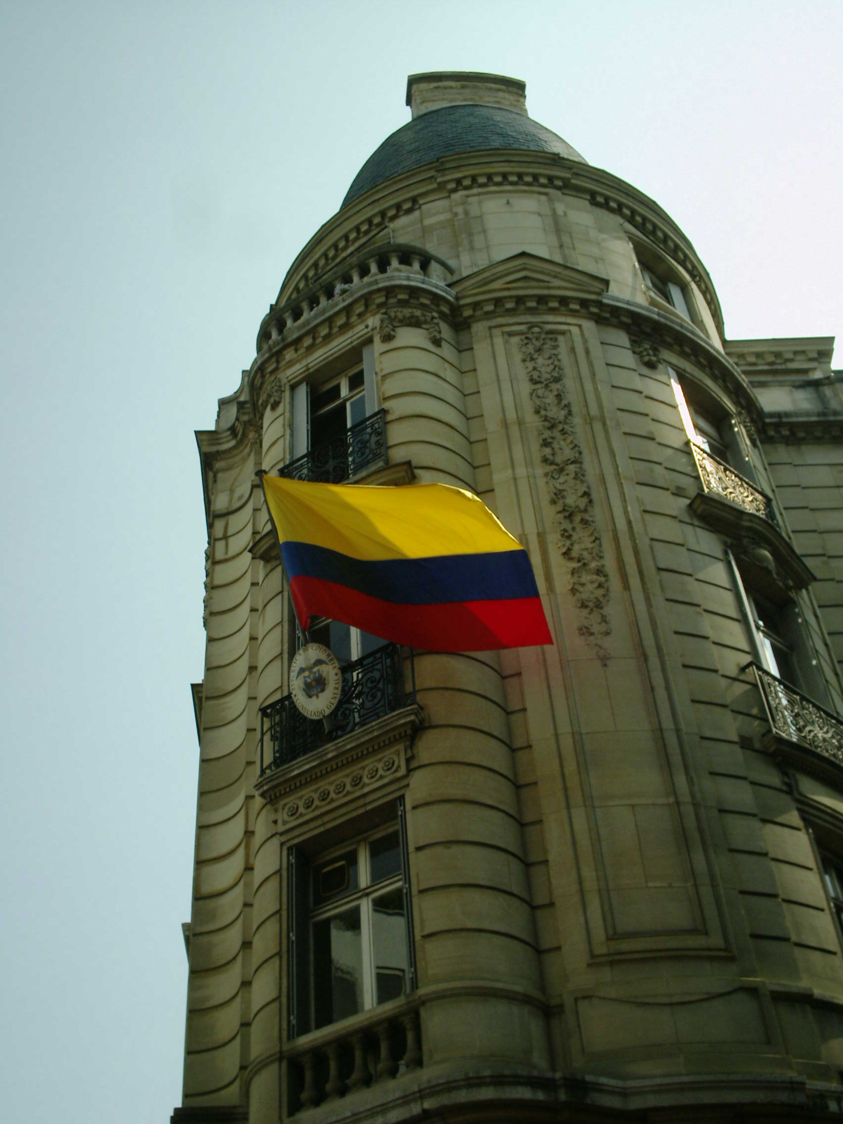 The Colombian Consulate General is located at 12 rue de Berri, 75008 Paris